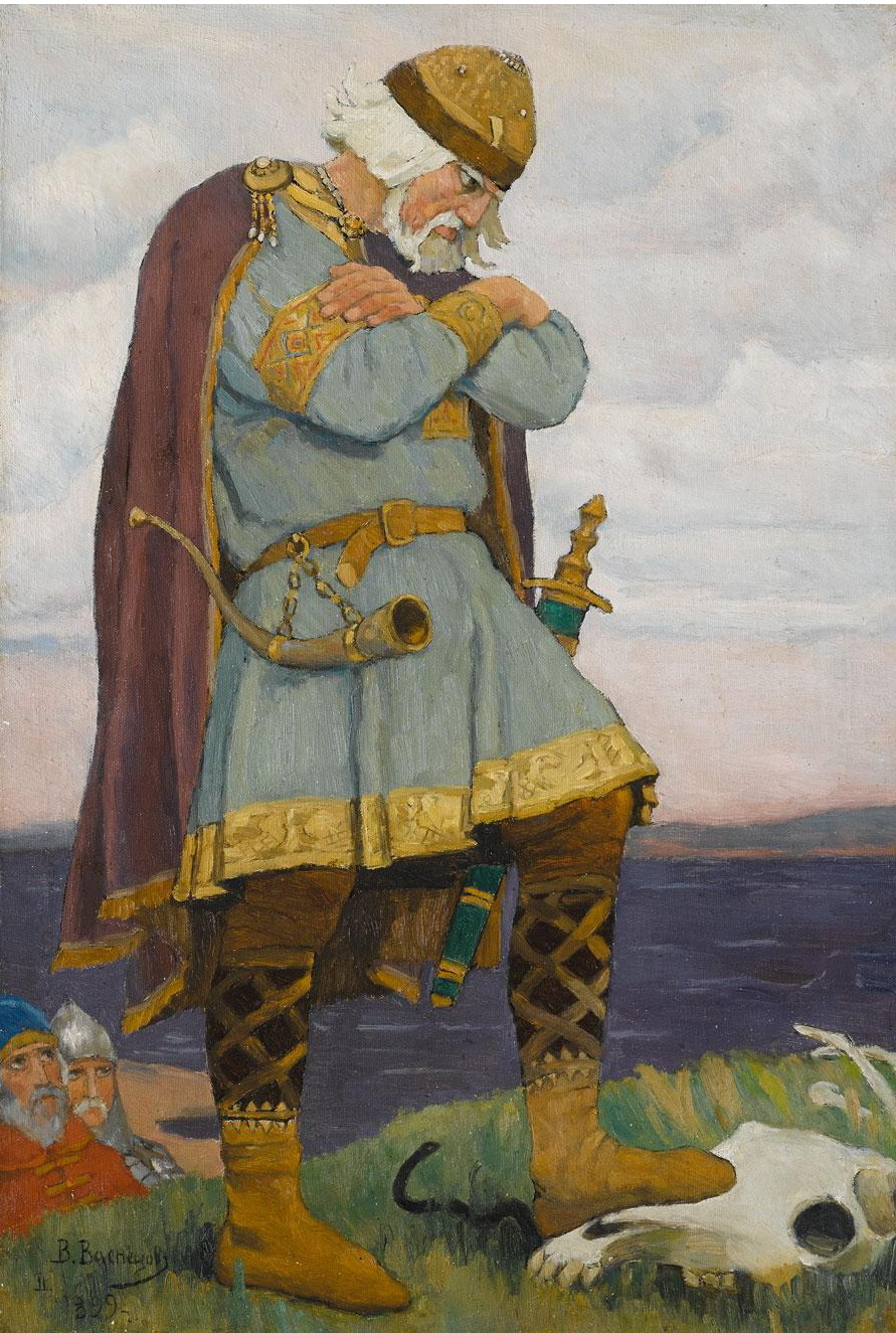 Victor Mikhailovich Vasnetsov, 1848-1919 1848-1926 WISE OLEG signed in Cyrillic l.l. and dated 1899 oil on canvas 74.5 by 51cm., 29¼ by 20in.